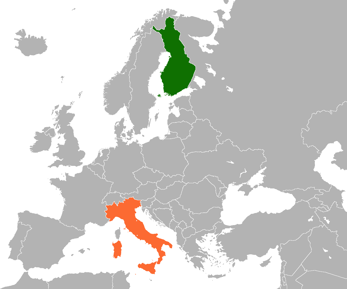 Map showing the locations of both Finland and Italy